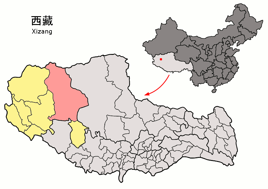 Location of Gêrzê County (pink) and Ngari Prefecture (yellow) within Tibet (Xizang) autonomous region of China